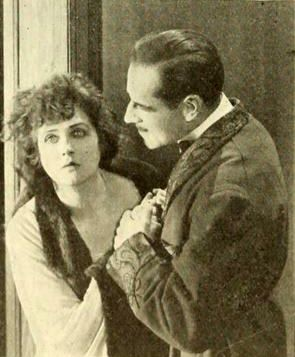 Still from the American film The Woman Thou Gavest Me (1919) with Katherine MacDonald and Jack Holt, on page 1318 of the May 31, 1919 Moving Picture World.